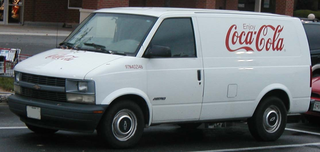 Chevrolet Astro cargo van photographed in USA.